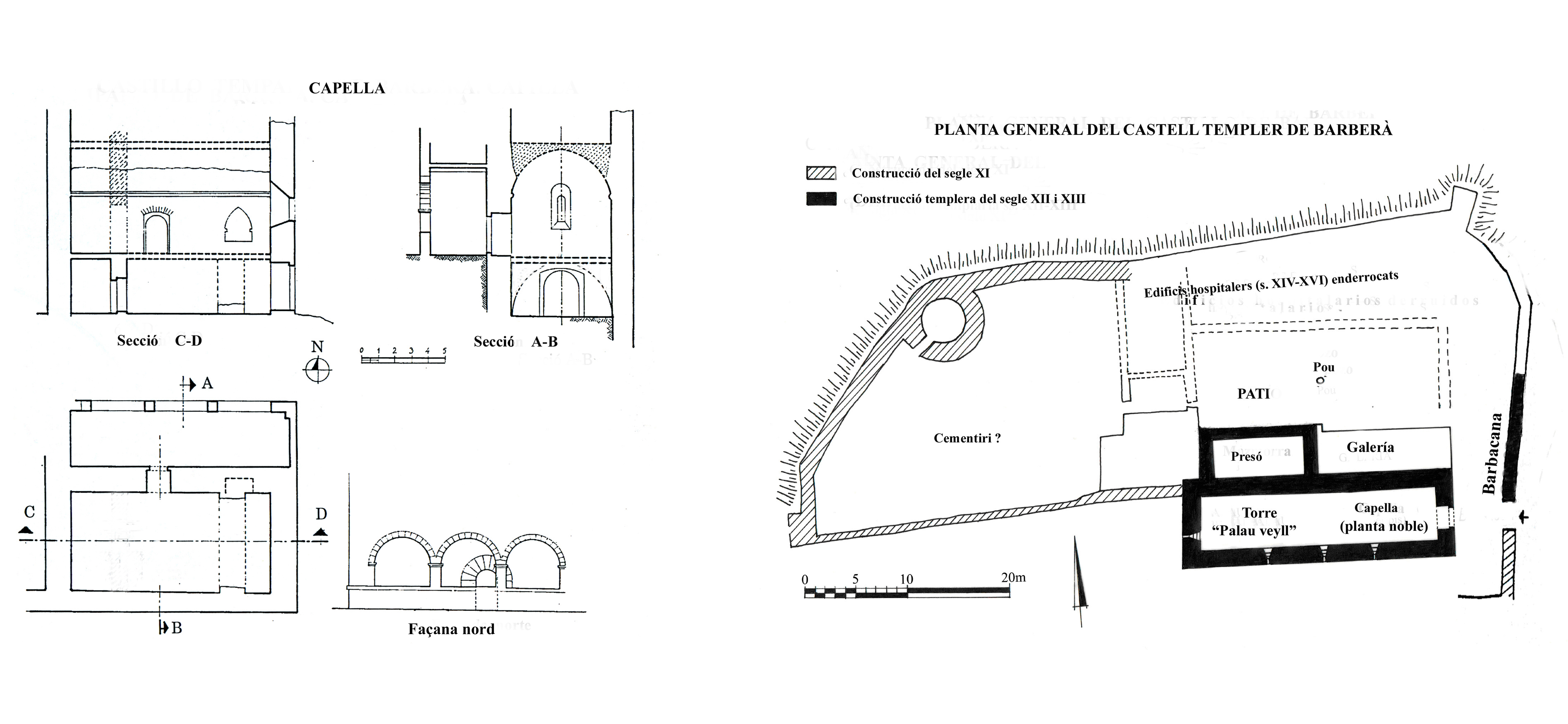 Castell de Barberà, plànols general i capella.